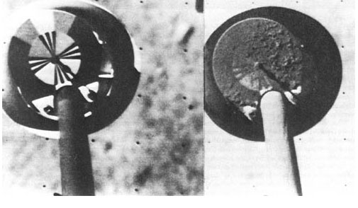 Surveyor 7 effects of the vernier-rocket engine blast